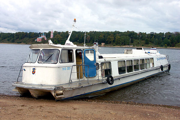 "ZARYA-315R" on Volga river in Tutaev (2005). Project R-83A